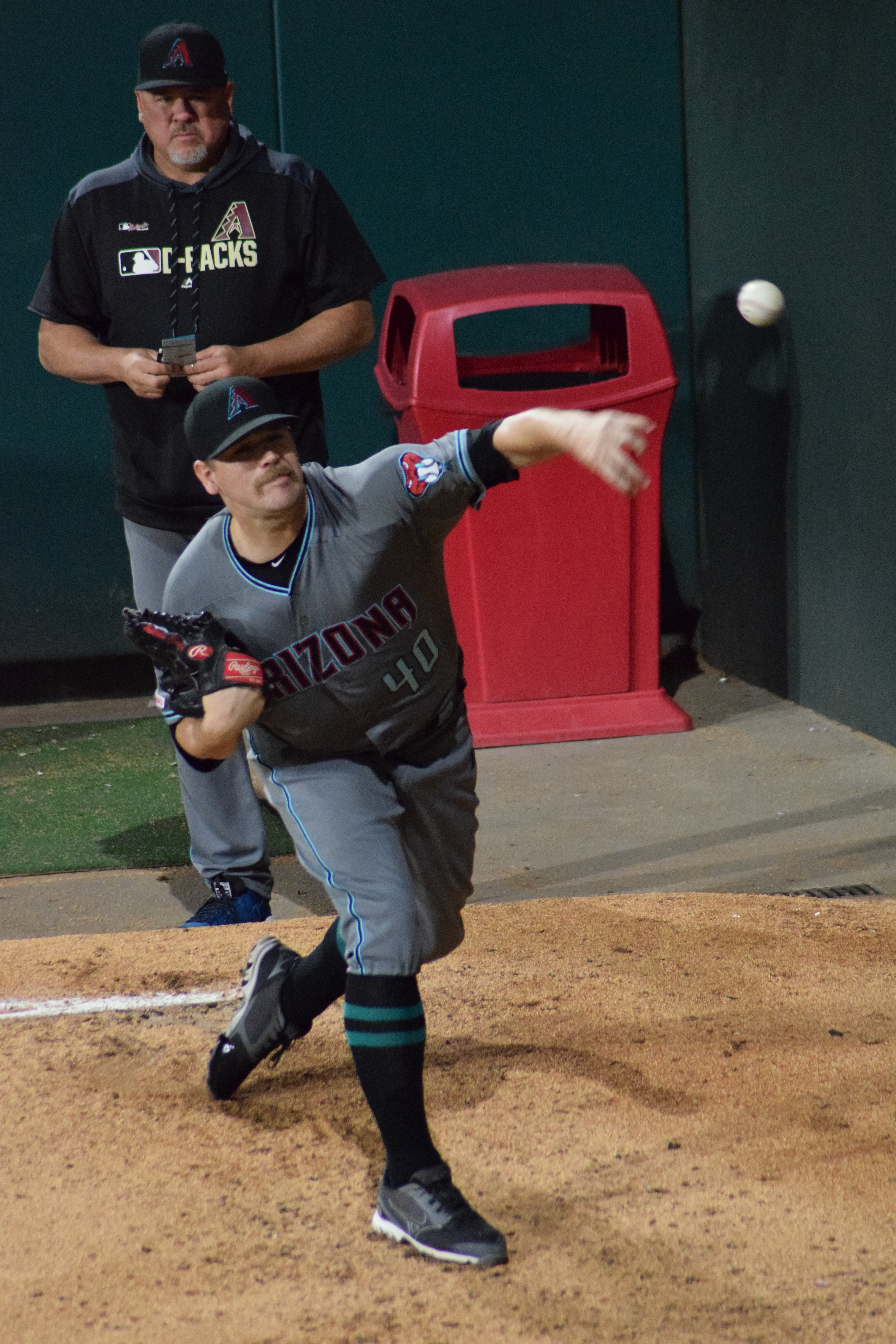 Andrew Chafin warms up in the bullpen for the Arizona Diamondbacks during a 2019 game at Citizens Bank Park